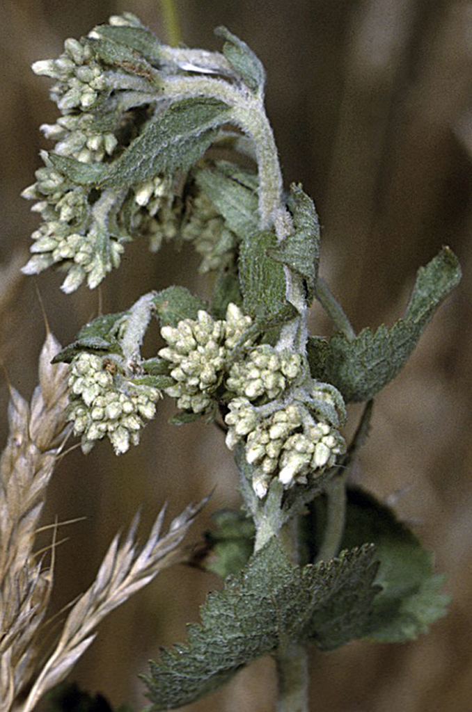 Eupatorium rotundifolium L. (roundleaf thoroughwort)